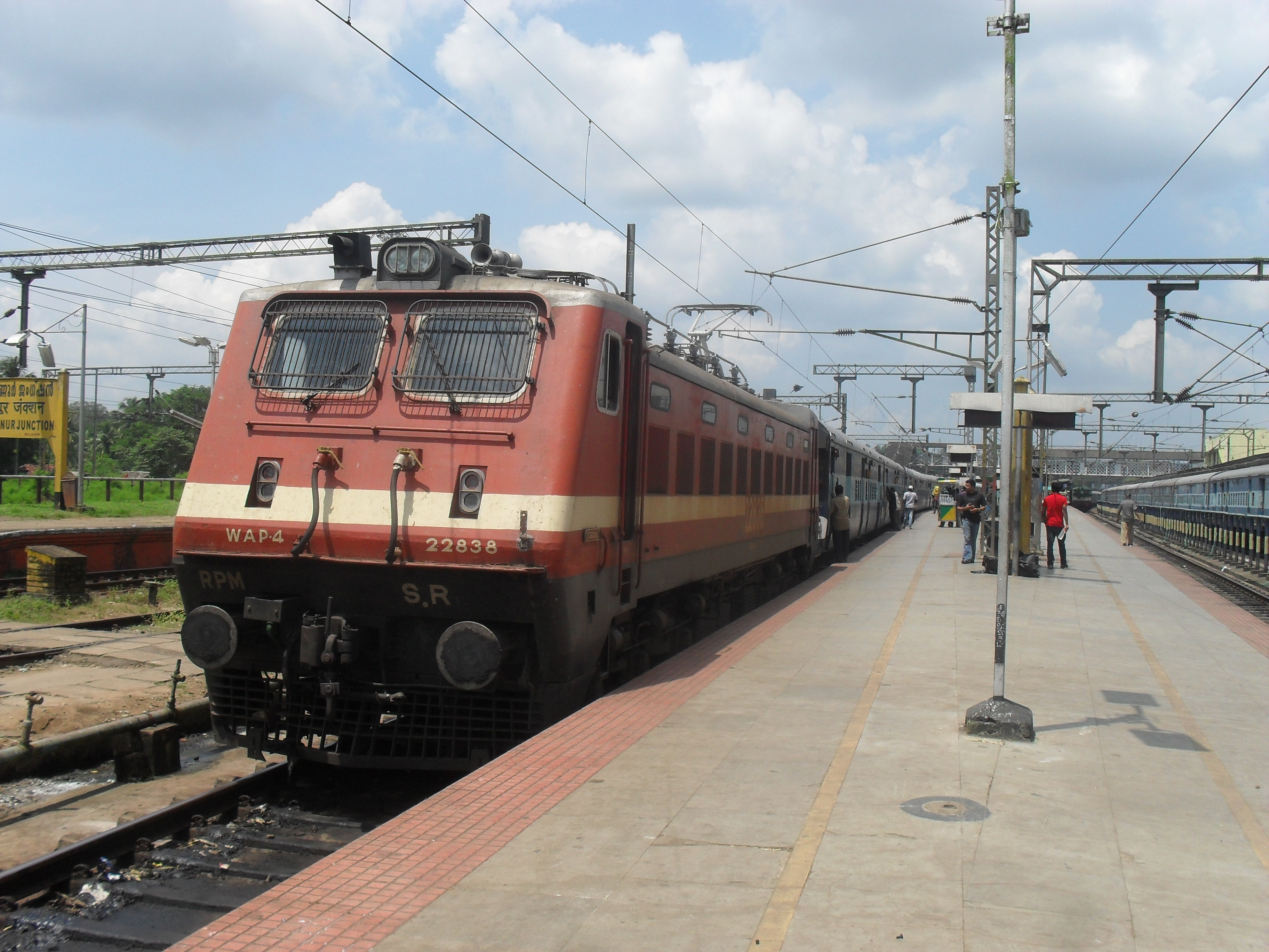 Victorvvk, Victor Vinod